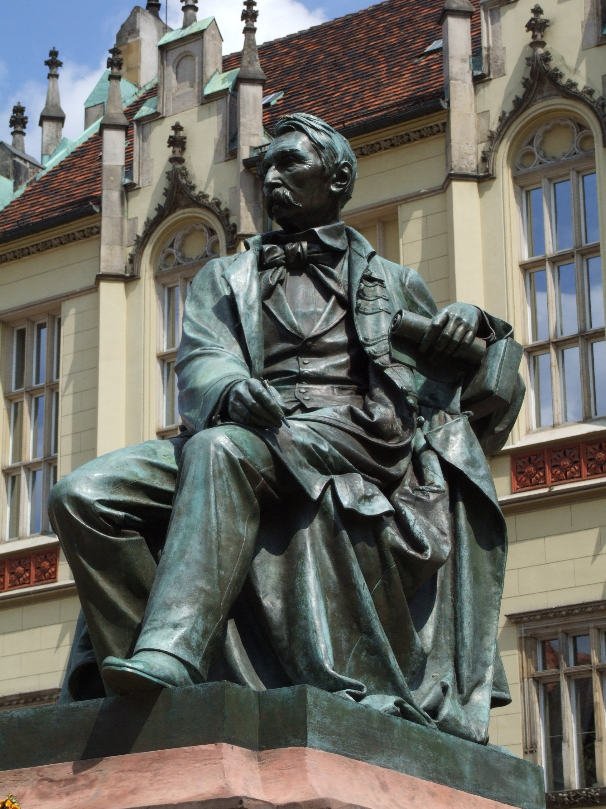 Monument to Aleksander Fredro in Wrocław (Breslau). Moved in 1956 from Lviv (Lwów)